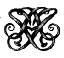 The monogram of the Russian empress Anna